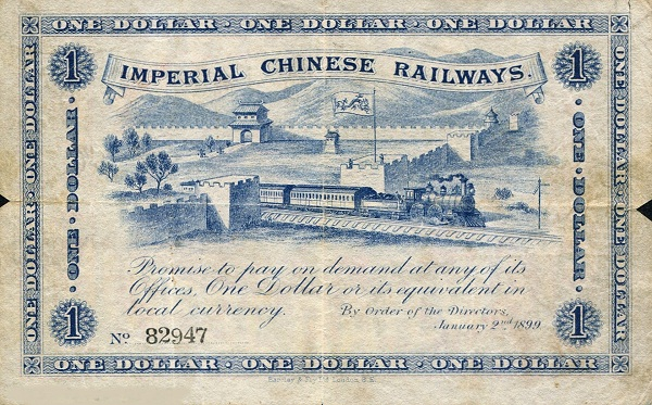 A banknote issued by the Imperial Chinese Railways during the reign of Guangxu under the Manchu Qing Dynasty.